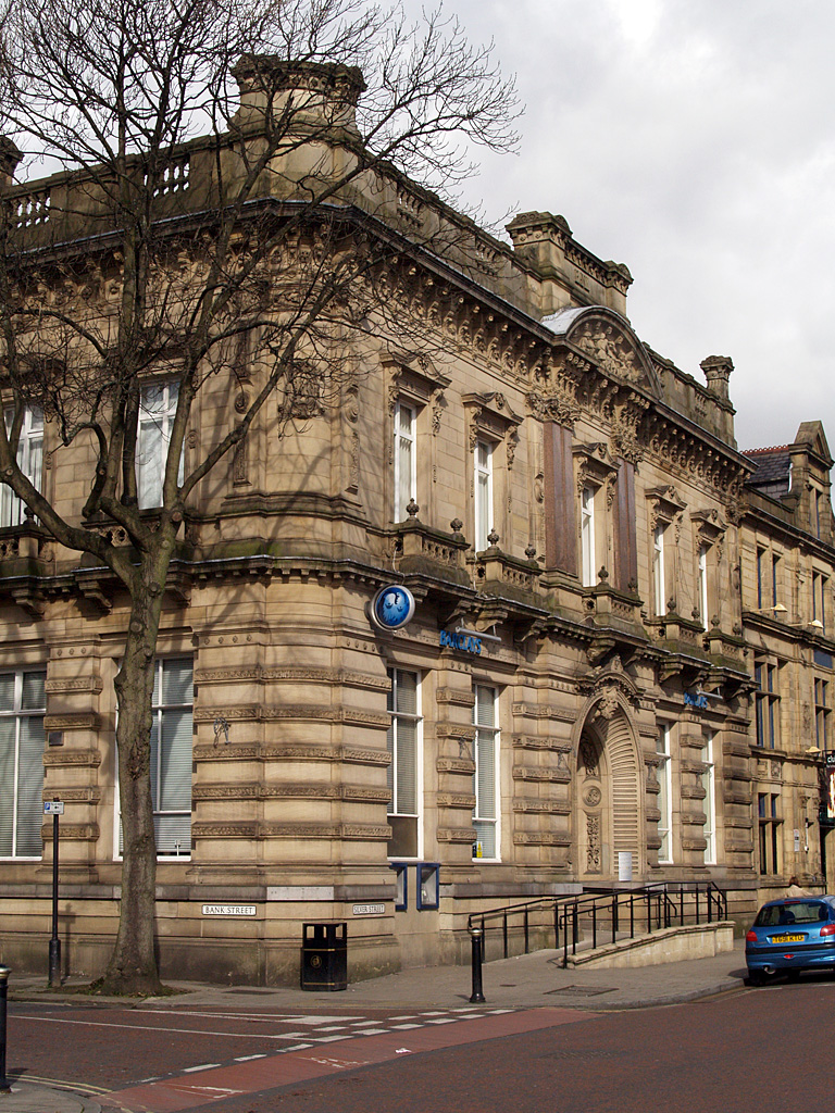 An image of a building formerly used to house a branch of Barclays banks in Bury, Greater Manchester